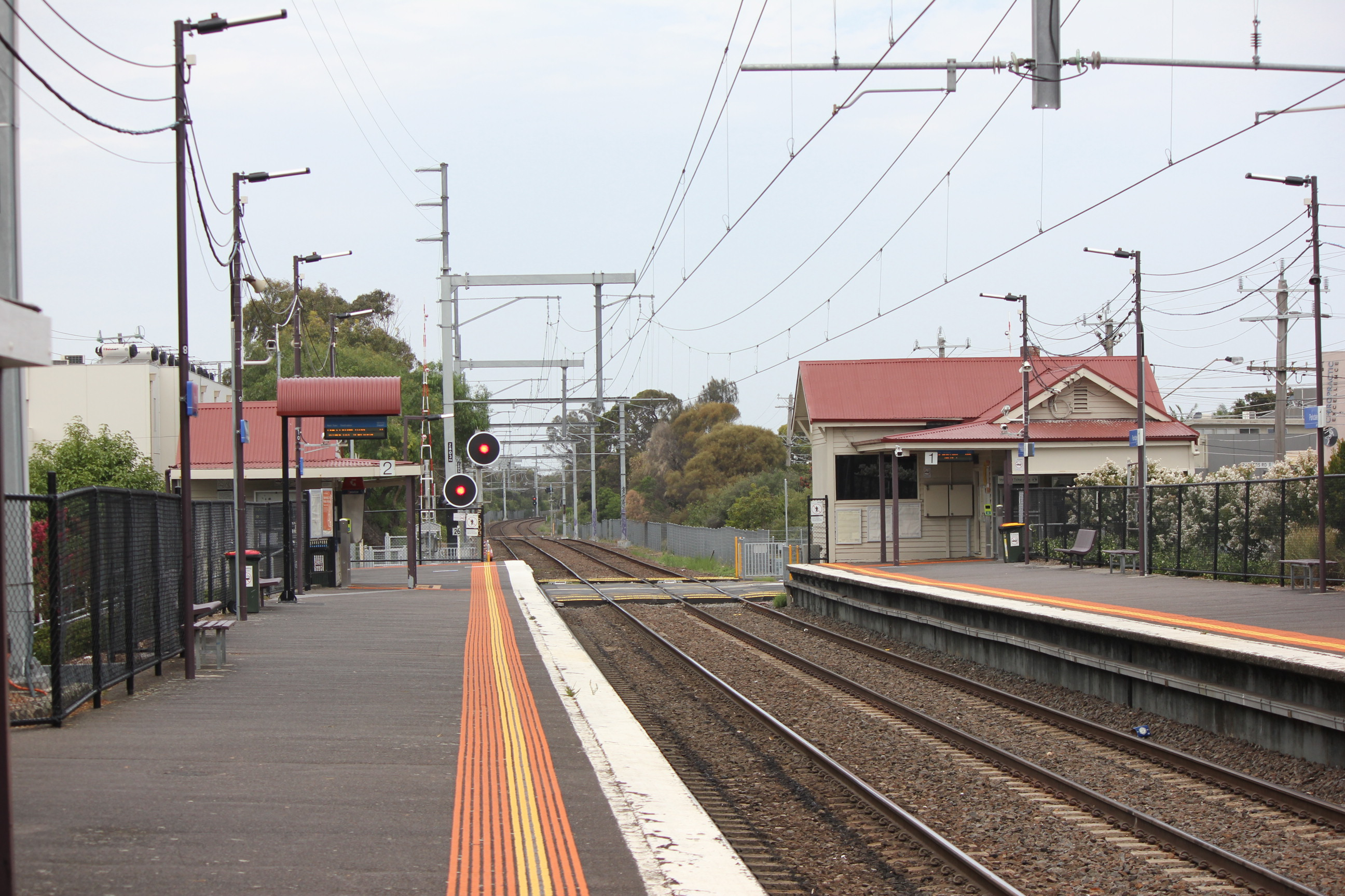 View of Parkdale station, looking towards Frankston.